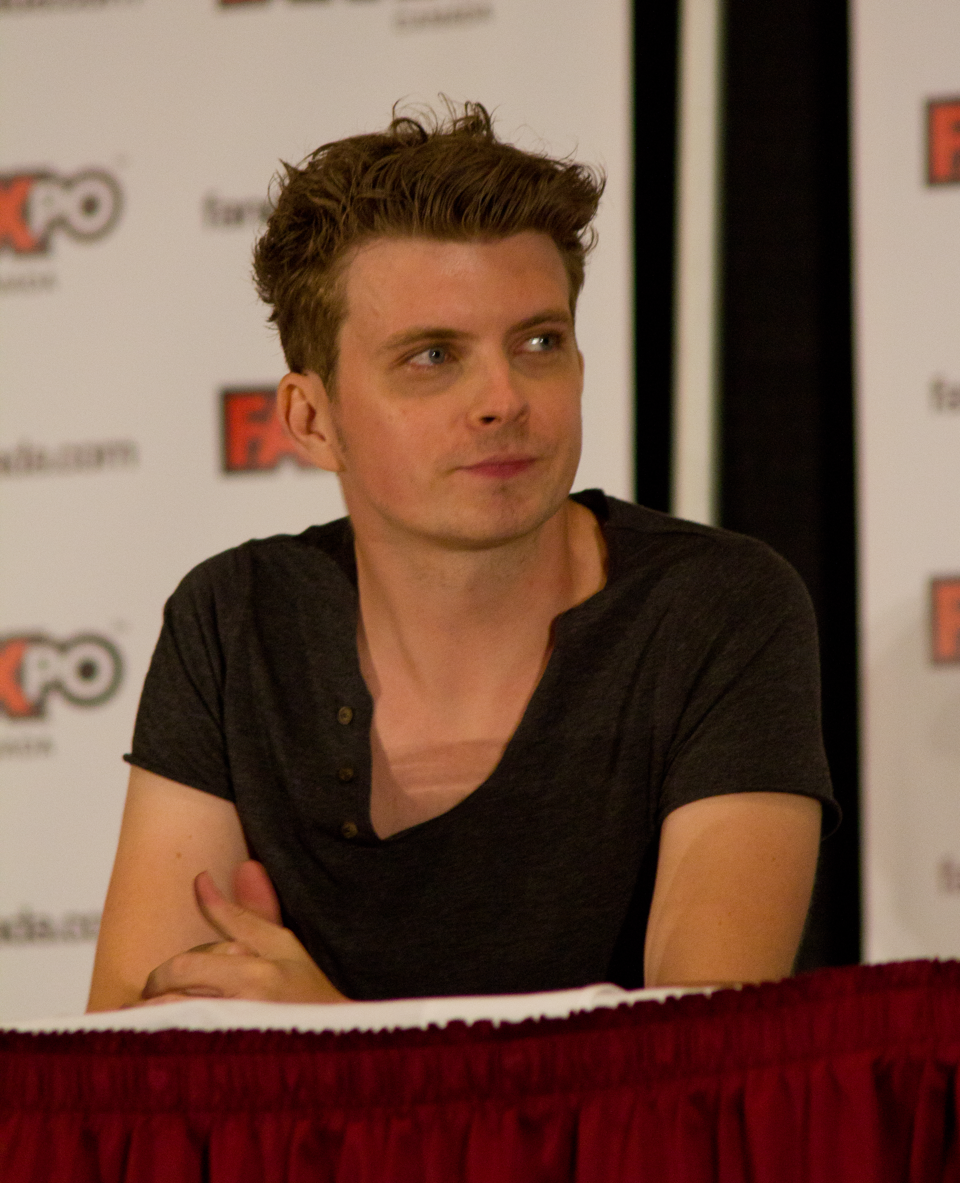 Actor Erik Knudsen at the 2012 FanExpo Canada